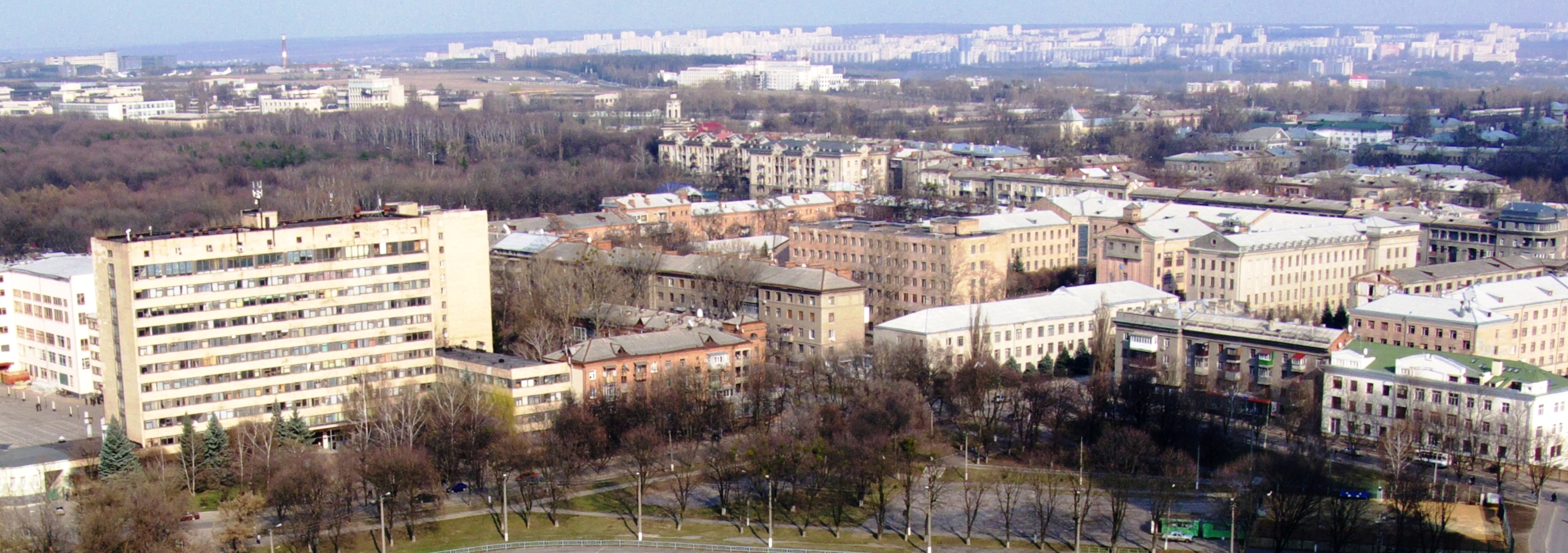 Kharkov Dinamovskaya and Sumskaya streets and KhVWKIURV.